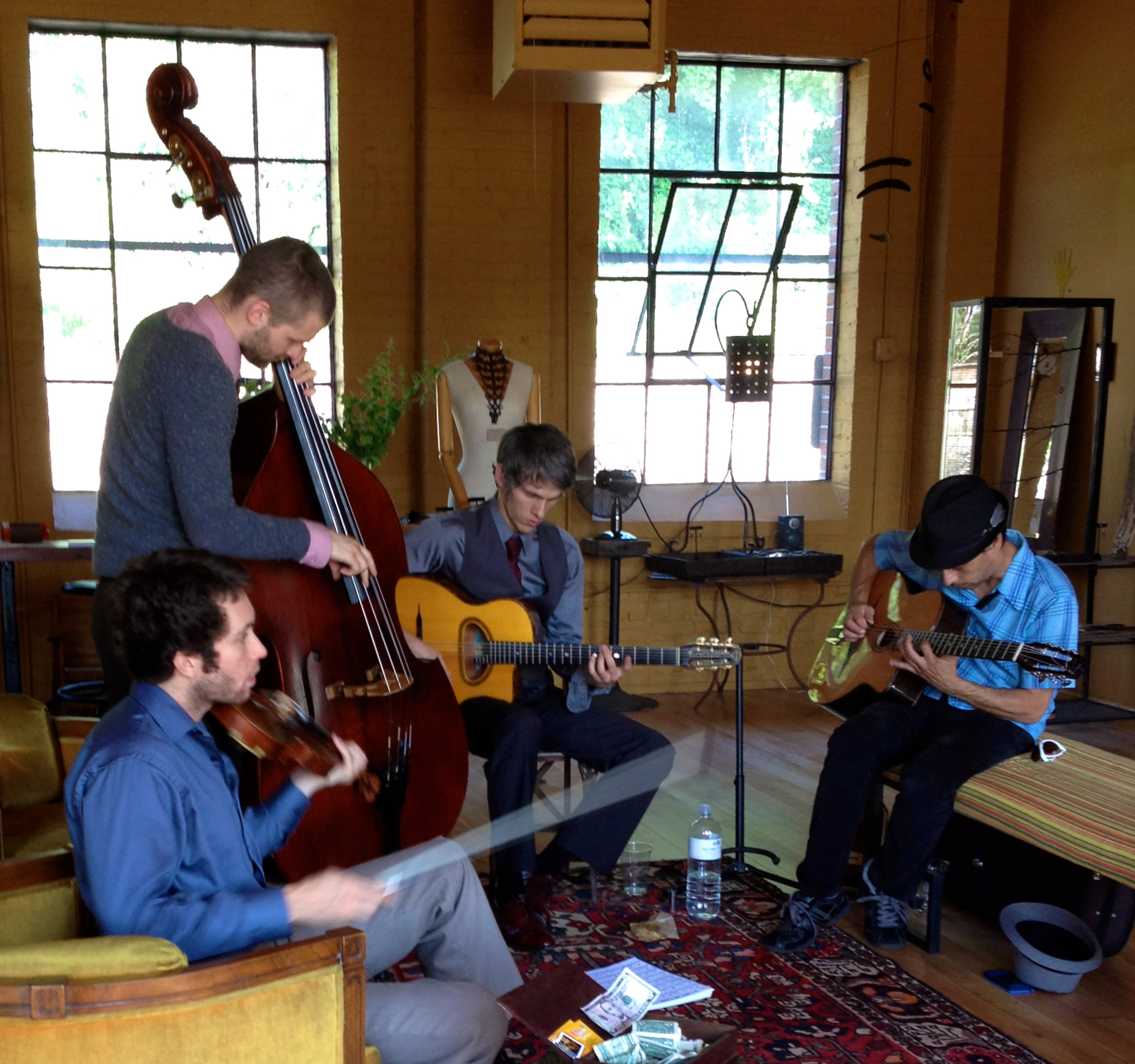 one or two,or so... of those nights from Flickr album "cotton mill jam-time at metal and thread" by denise carbonell from asheville "we like to jam.heres where it happens."